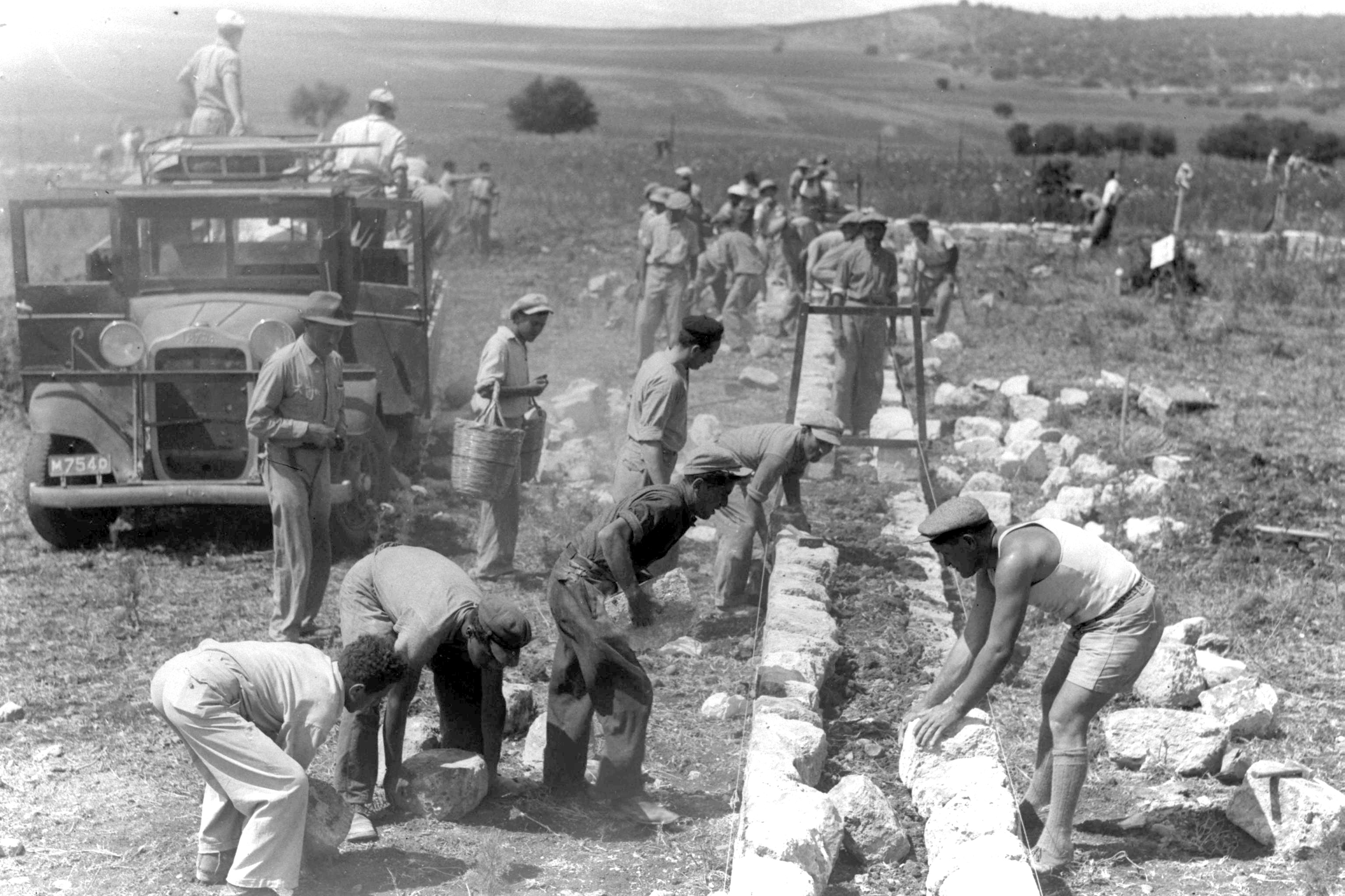 Kibbutz Alonim workers building a protective stone wall during the day of the establishment of kibbutz Alonim in the Jezreel Valley.